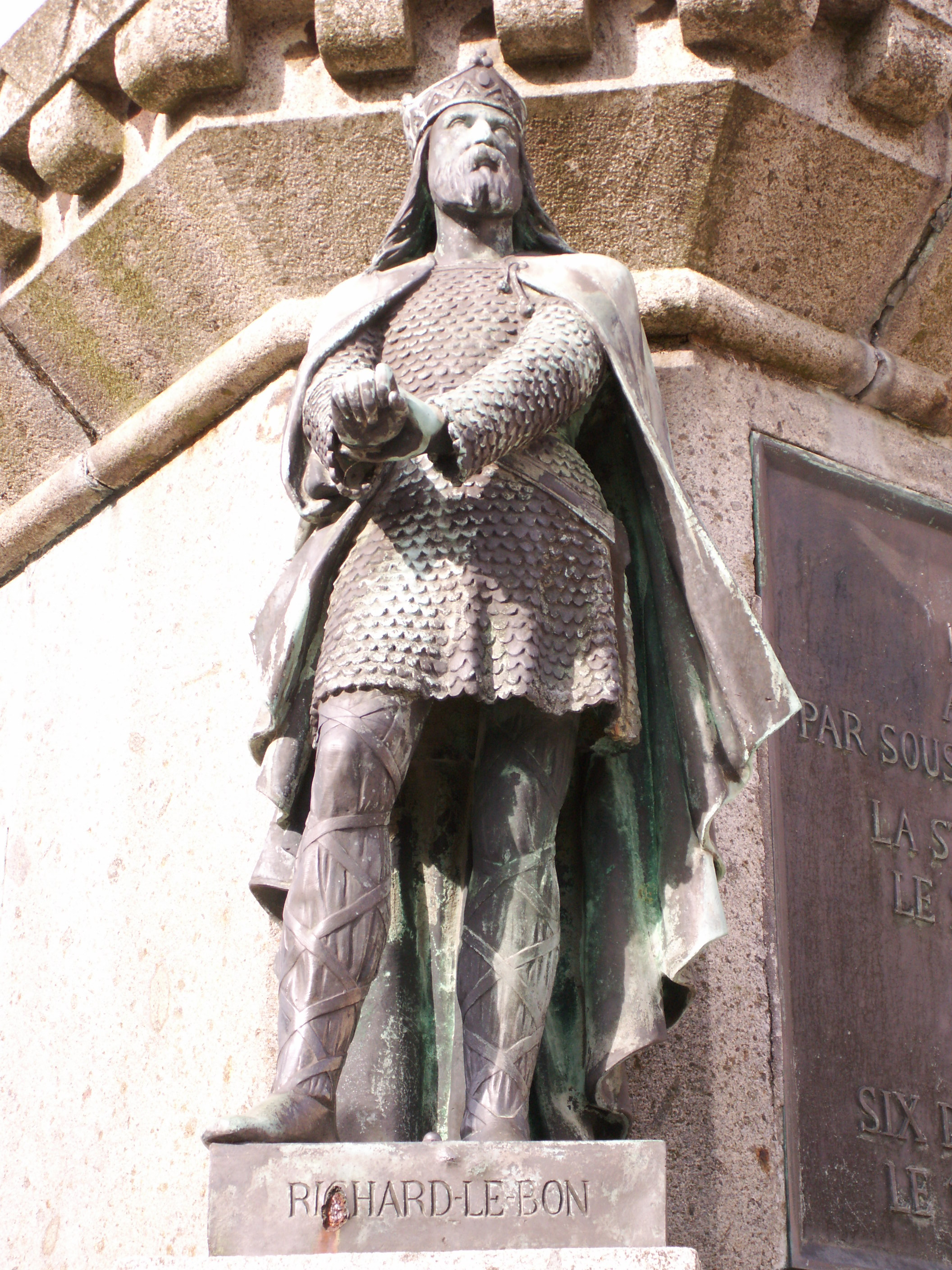 Photo of Richard the Good as part of the Six Dukes of Normandy statue in the Falaise town square.